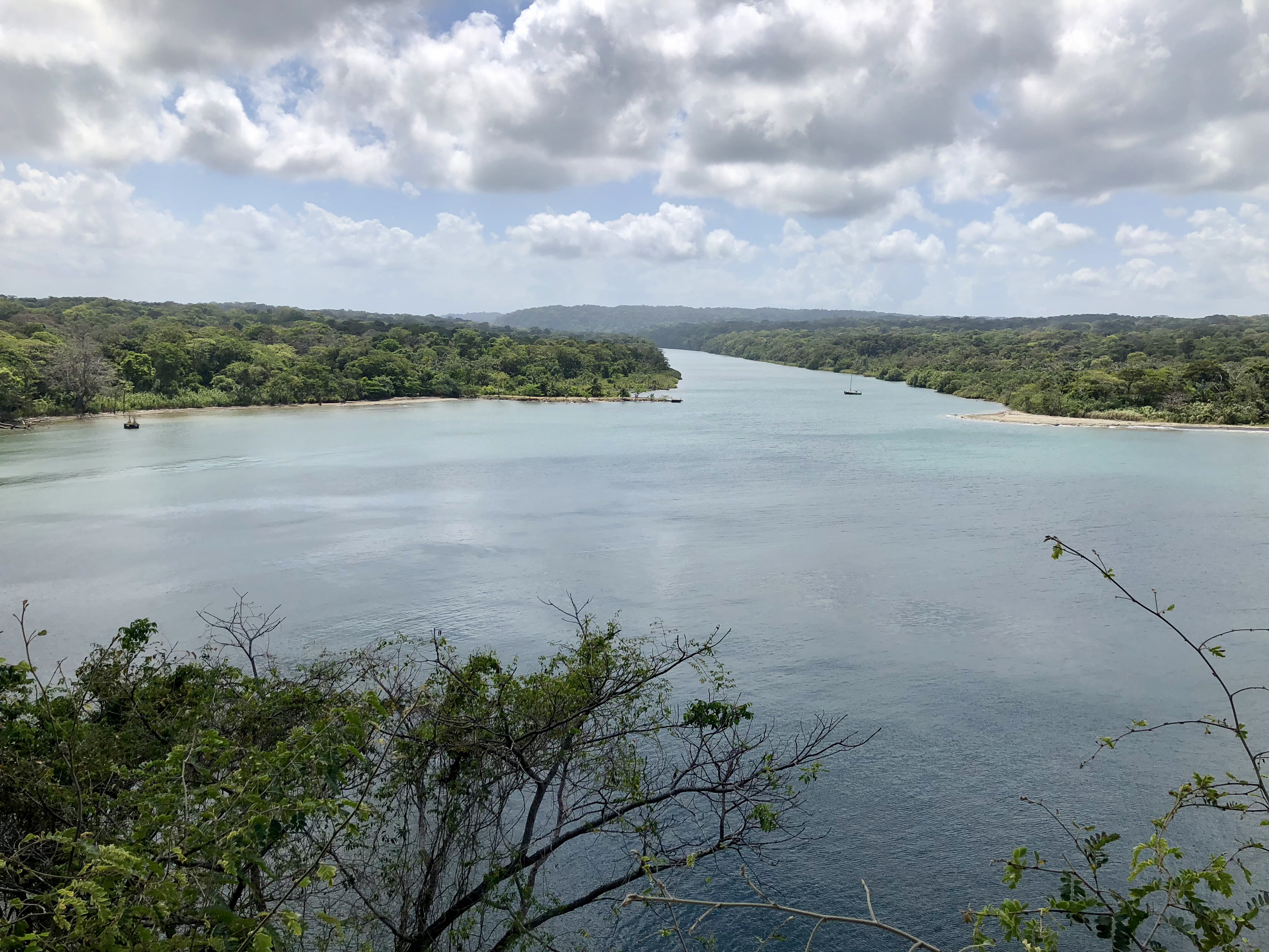 View from Fort San Lorenzo of the mouth of the Chagres River